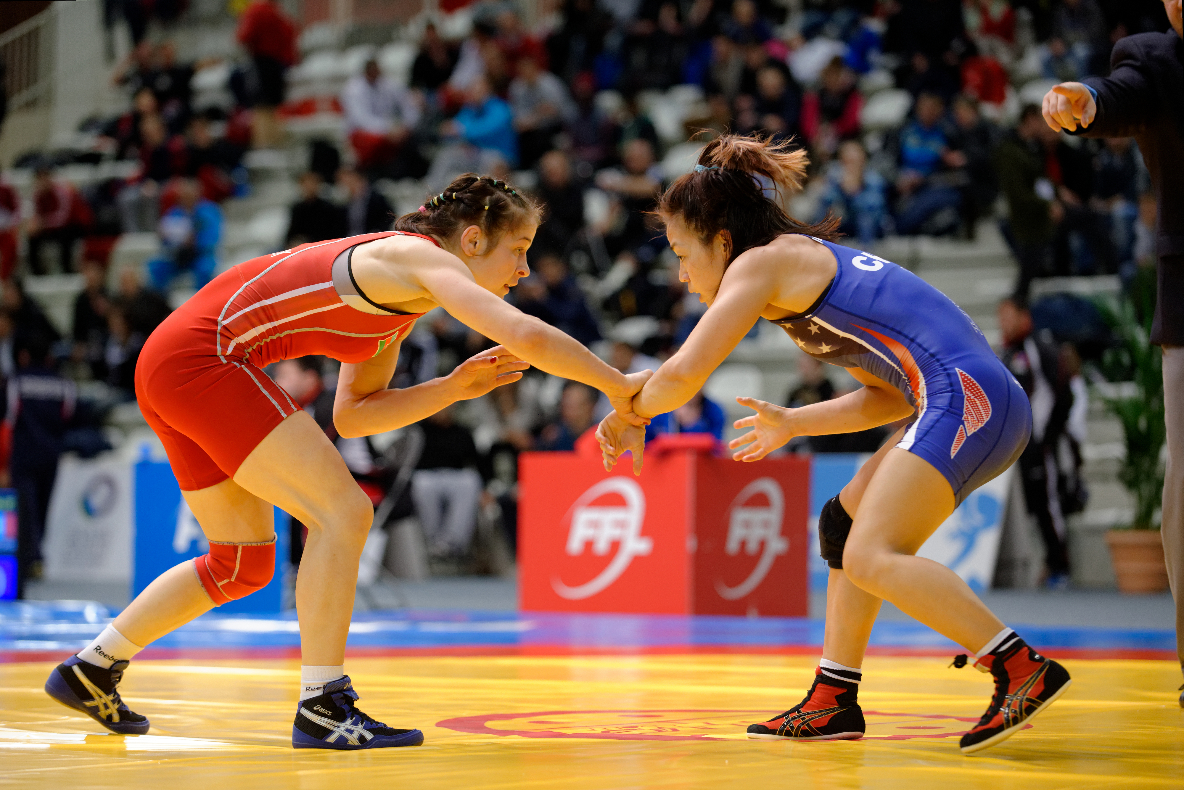 Azerbaijan's Mariya Stadnik (red) wrestles Clarissa Chun of the United States (blue) during their female wrestling 48 kg qualification match at the Golden Grand Prix of Paris on 8 February 2014.